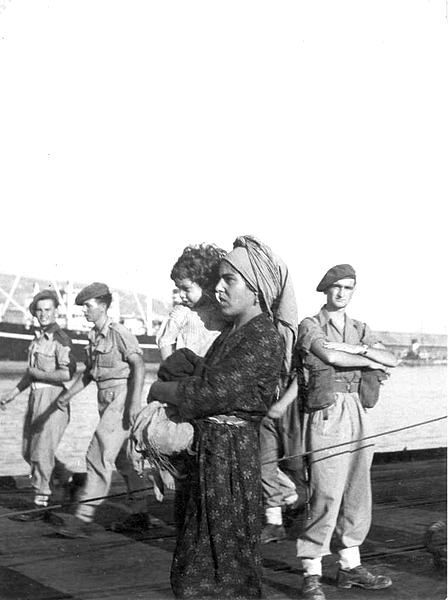 The Palmach, Immigration to Israel